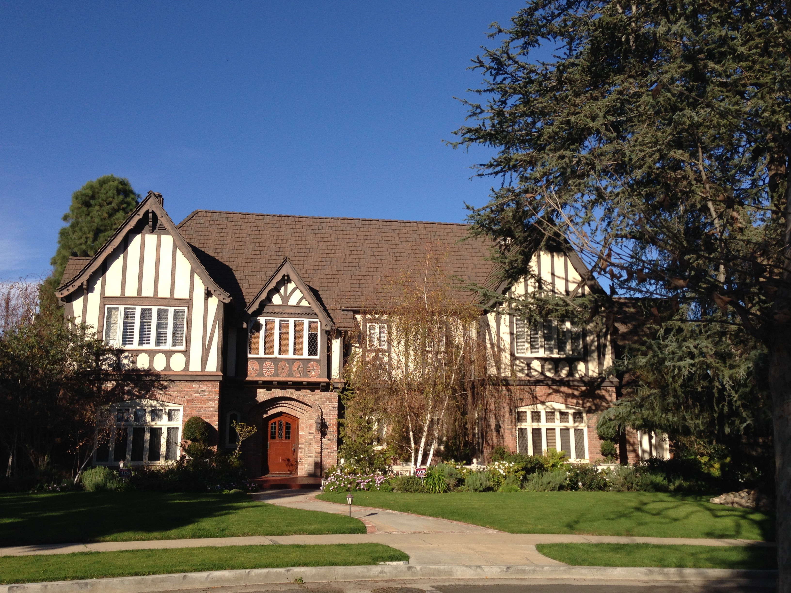 A typical house in the Cheviot Hills neighborhood of Los Angeles, California